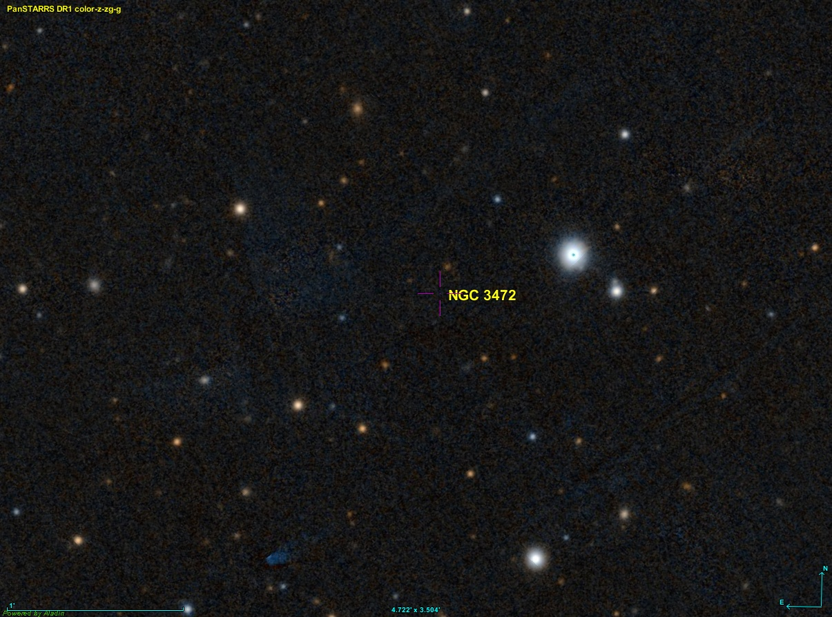 Image created using the Aladin Sky Atlas software from the Strasbourg Astronomical Data Center and Pan-STARRS (Panoramic Survey Telescope And Rapid Response System) public data.